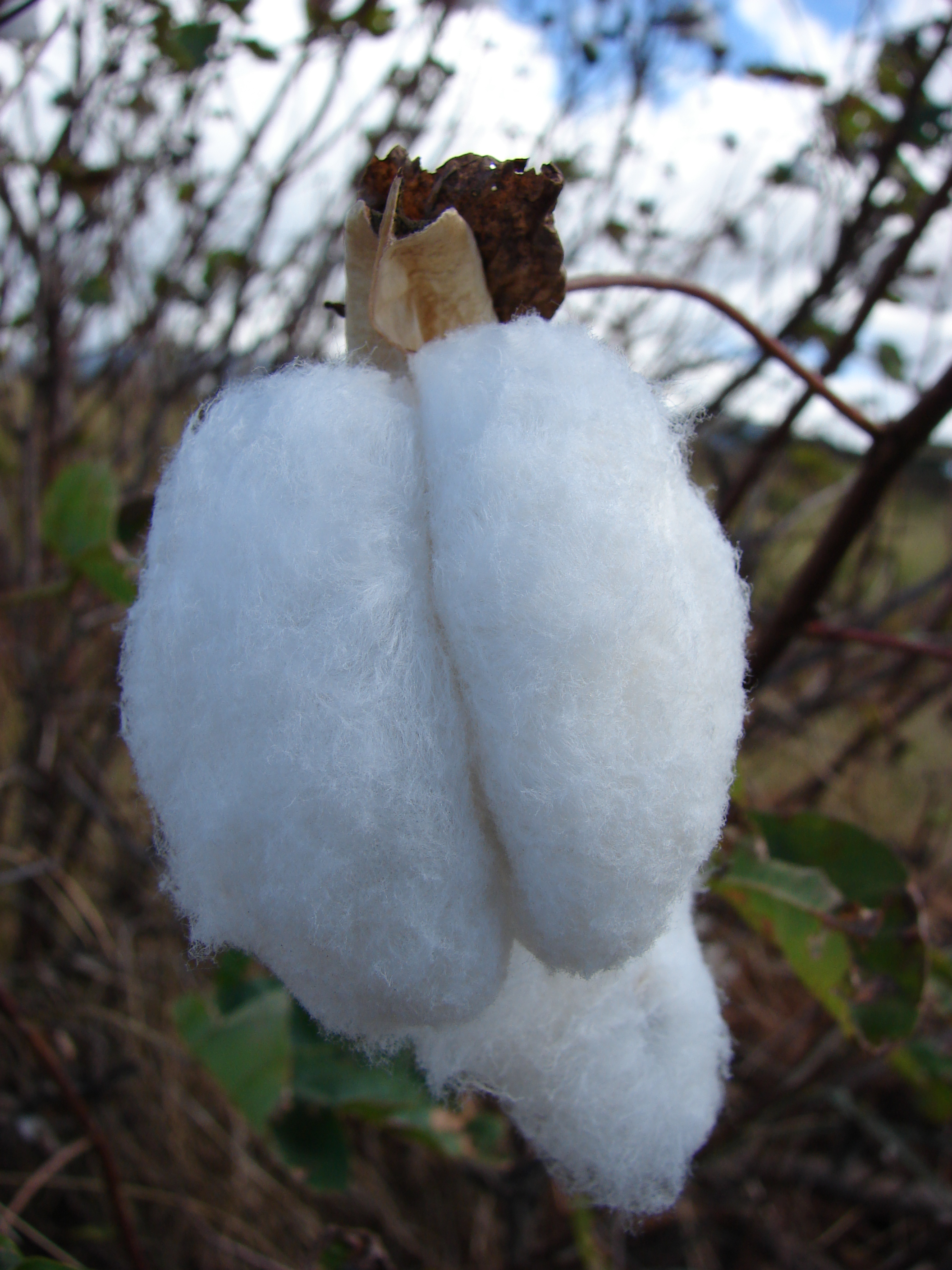 Gossypium barbadense (seeds and cotton). Location: Maui, Kaanapali train depot